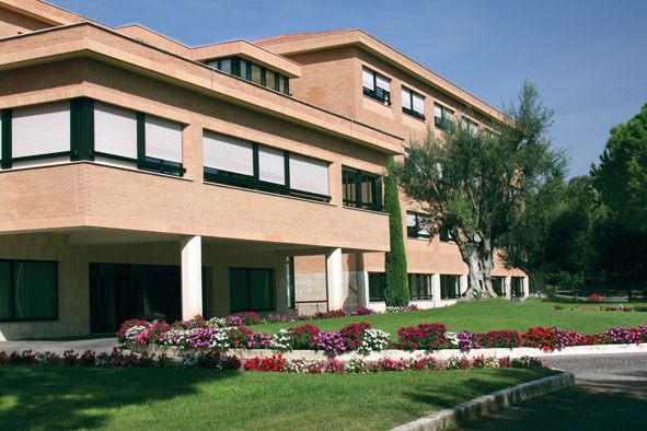 Picture of the outside of the main building at the Ateneo Regina Apostolorum in Rome, Italy, sponsored by the Legion of Christ